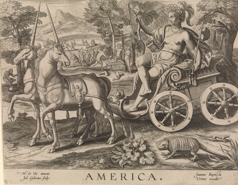 America, from The Four Continents, by Julius Goltzius (Dutch, died ca. 1595), after Maerten de Vos (Netherlandish, 1532–1603), Dutch, 16th century. Engraving, 21.9 x 28.1 cm The Metropolitan Museum of Art